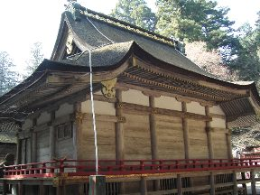 Nishi Hongū at Hiyoshi Taisha Shrine